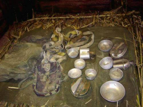 Partisan's Headquarter 회문산 빨치산 사령부 내부